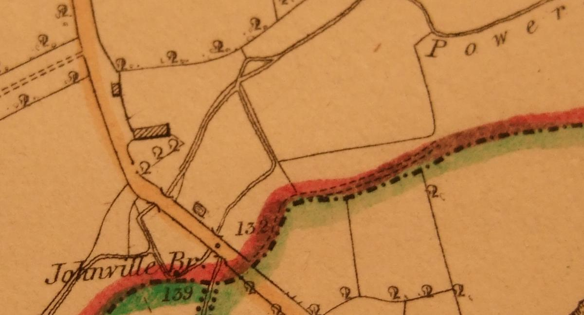 Scanned from the original 1842 Ordnance Survey map